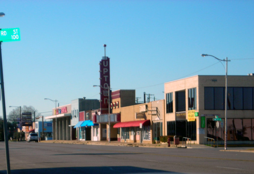 Main Street in Grand Prairie, Texas, featuring the recently renovated Uptown Theater.